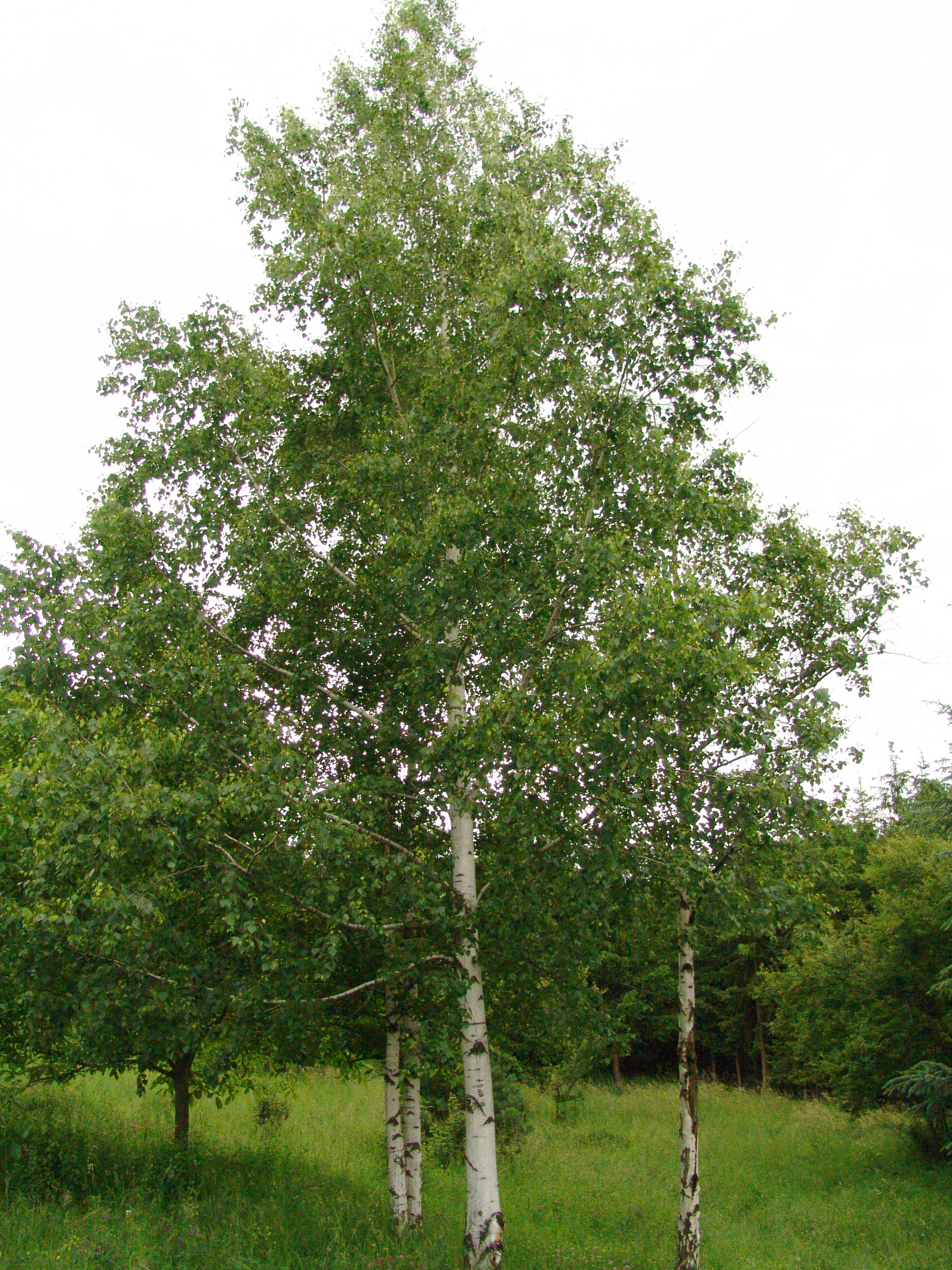 Betula pendula tree, Bulgaria.